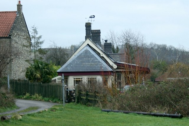 Wellow Station (converted) The driver's eye view of Wellow Station on the Somerset & Dorset Joint Railway as he approached from the west (or the guard's eye view going the other way). Now converted to a private residence, hope the owner does not object, please contact the photographer if you do.